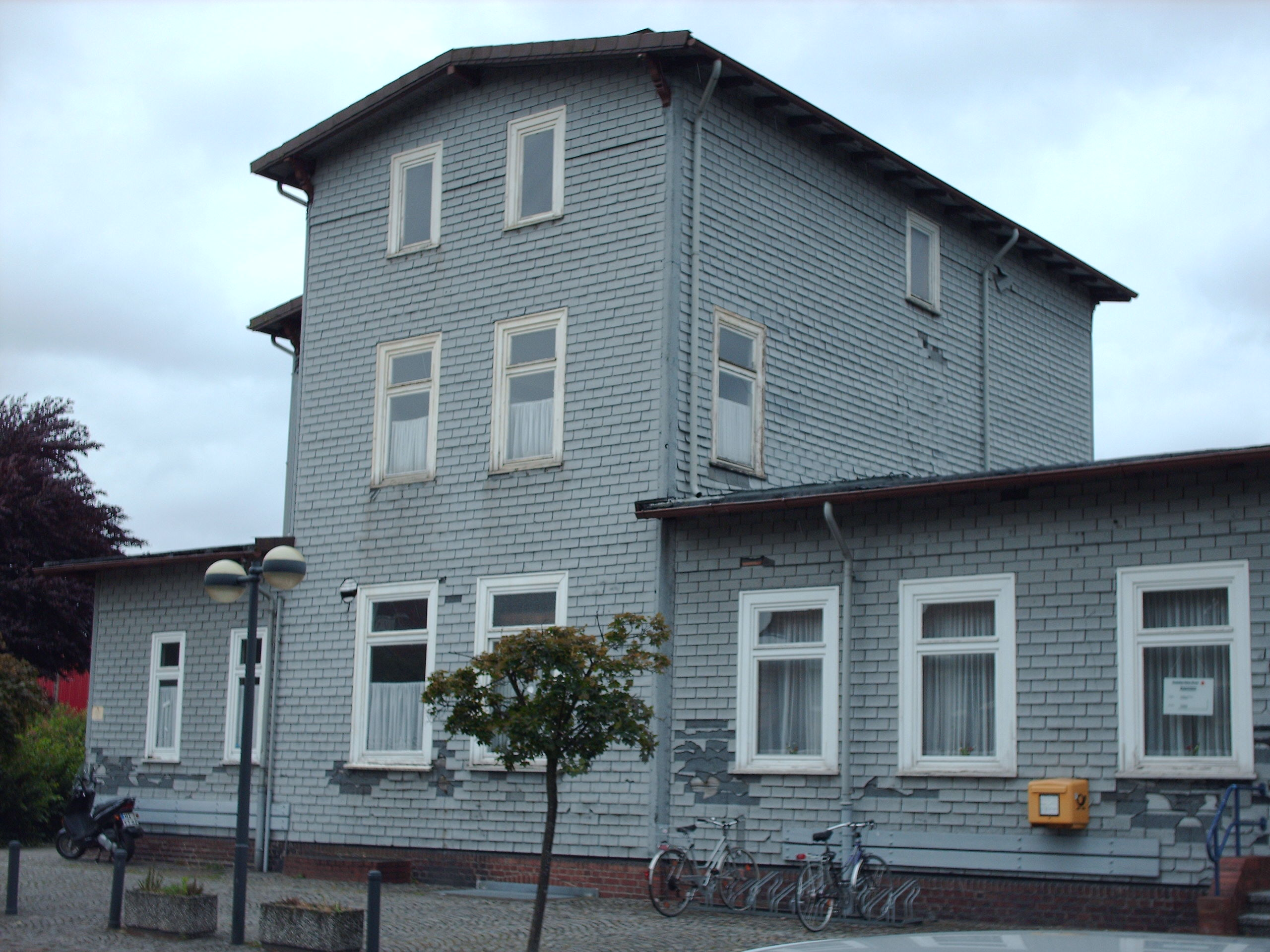 Rahden (Kr Lübbecke) station, Rahden, Germany check usage